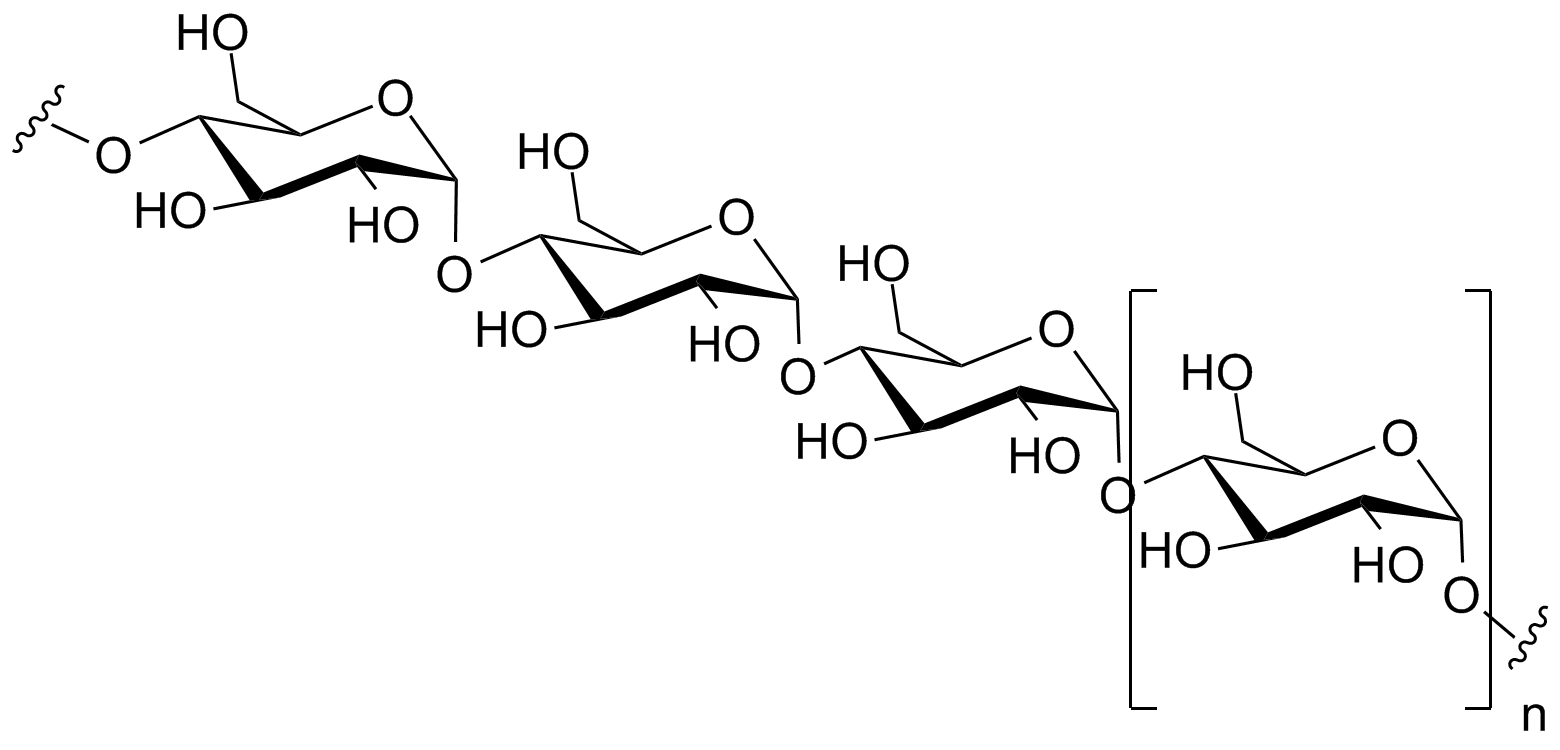 3D projection of amylose, alpha-1-4 linked glucose polymer